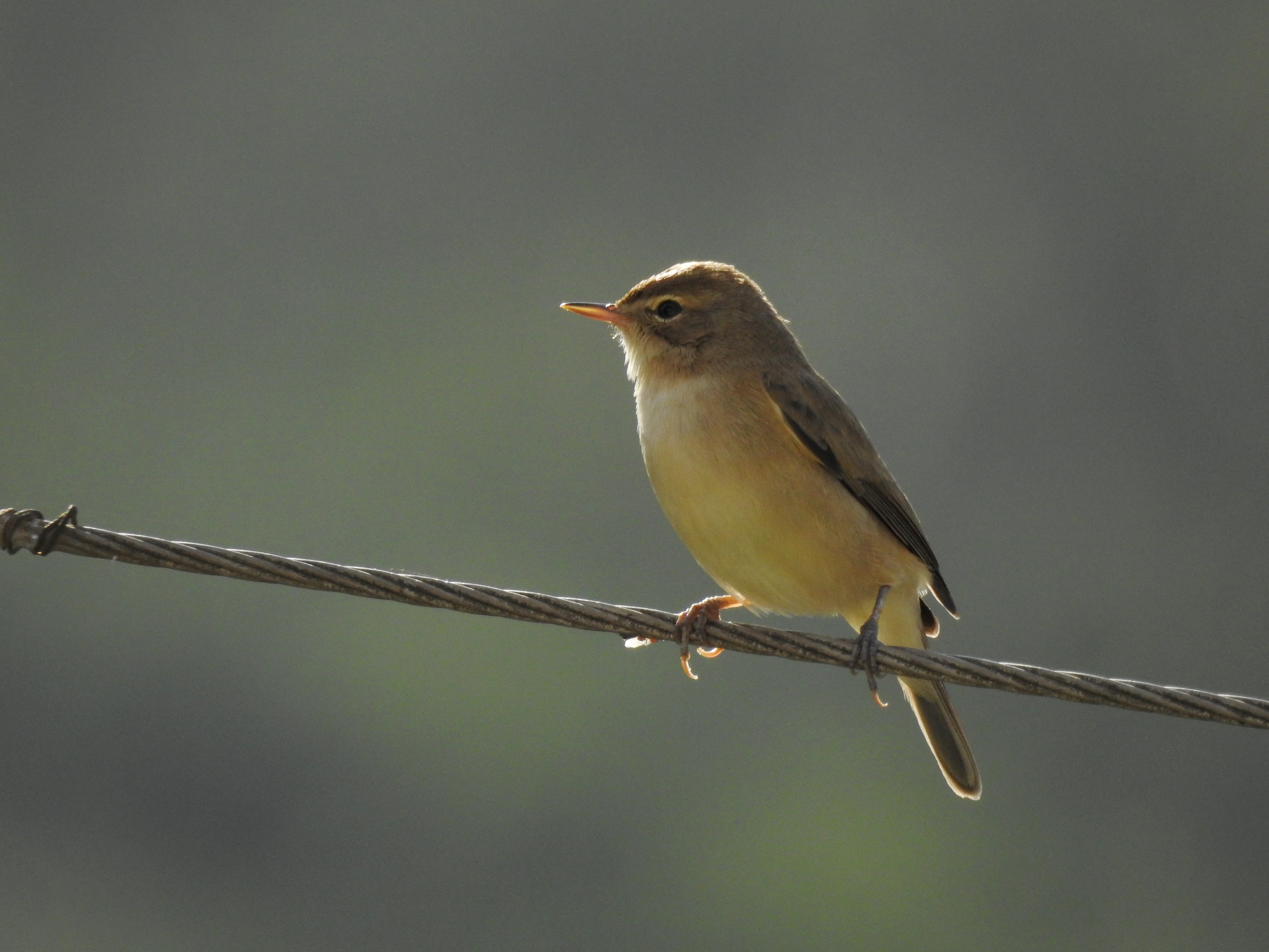 Booted Warbler in the Anamalai Hills, Tamil Nadu